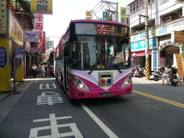 Taipeibus 261AC.